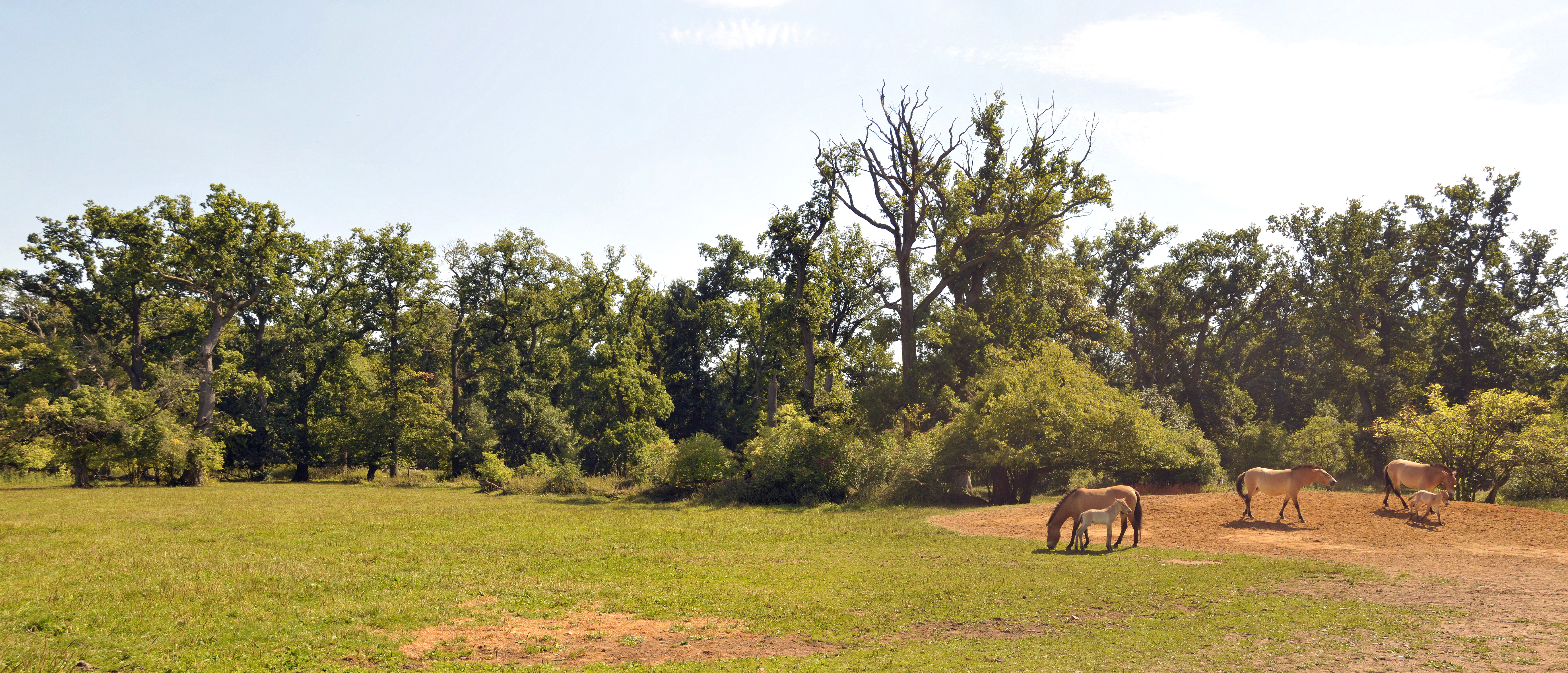 Preserve by the :en:Przewalski's Horses in the Wisentgehege Springe game park near Springe, Hanover Region, Germany